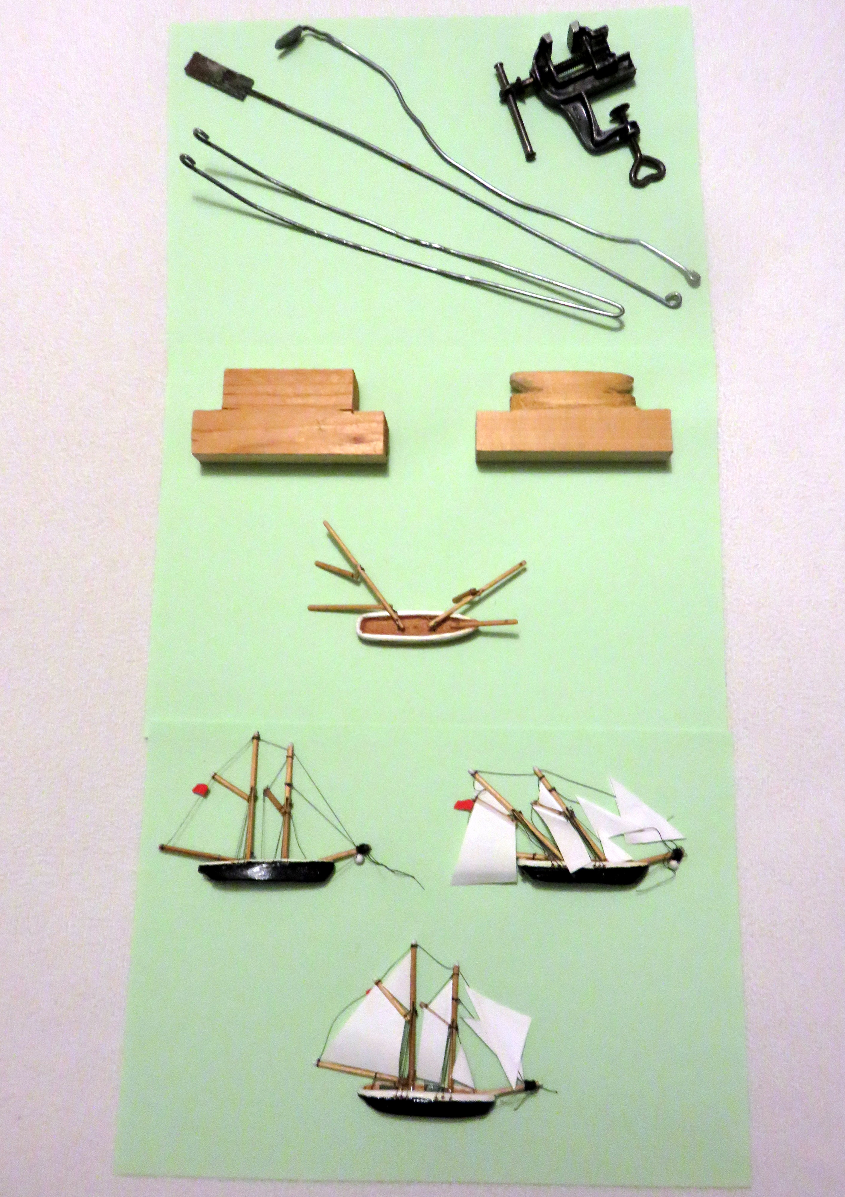 Tools and main construction steps. Private work according to handicraft manual, Germany 1997.